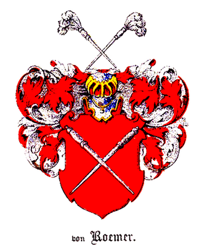 Coat of Arms of Roemer family